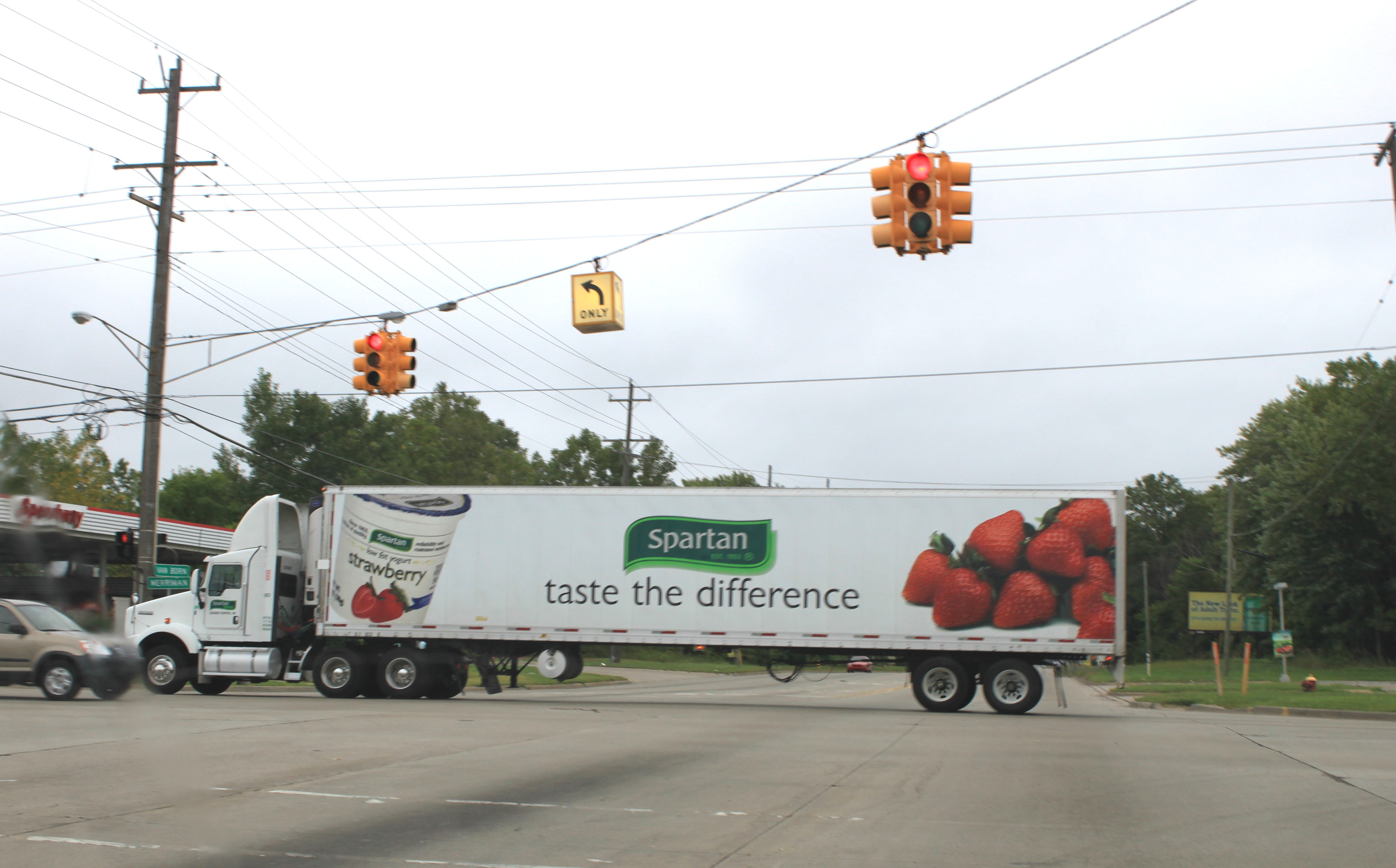 Spartan delivery truck, Van Born Road & Merriman Road, Romulus, Michigan. Strictly speaking, the front of the truck is in Romulus and the rear is in Wayne.